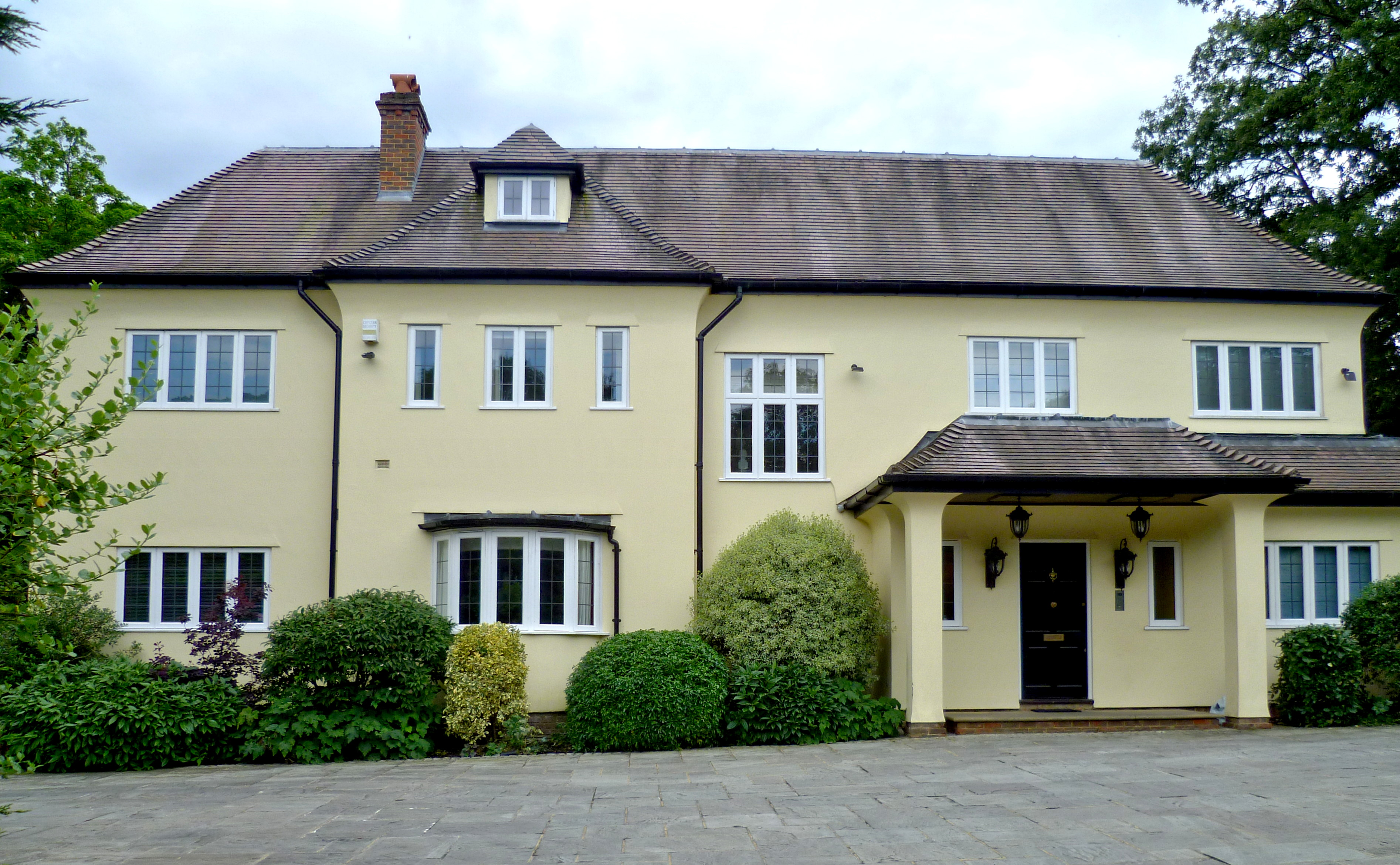 Dixton, Hadley Common road